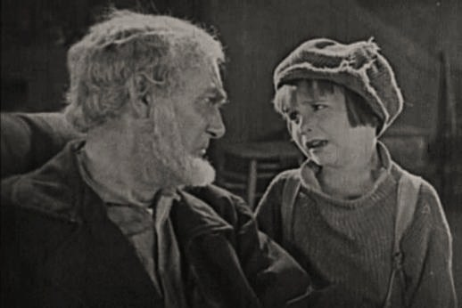 Claude Gillingwater and Jackie Coogan in My Boy (1921) - cropped screenshot.